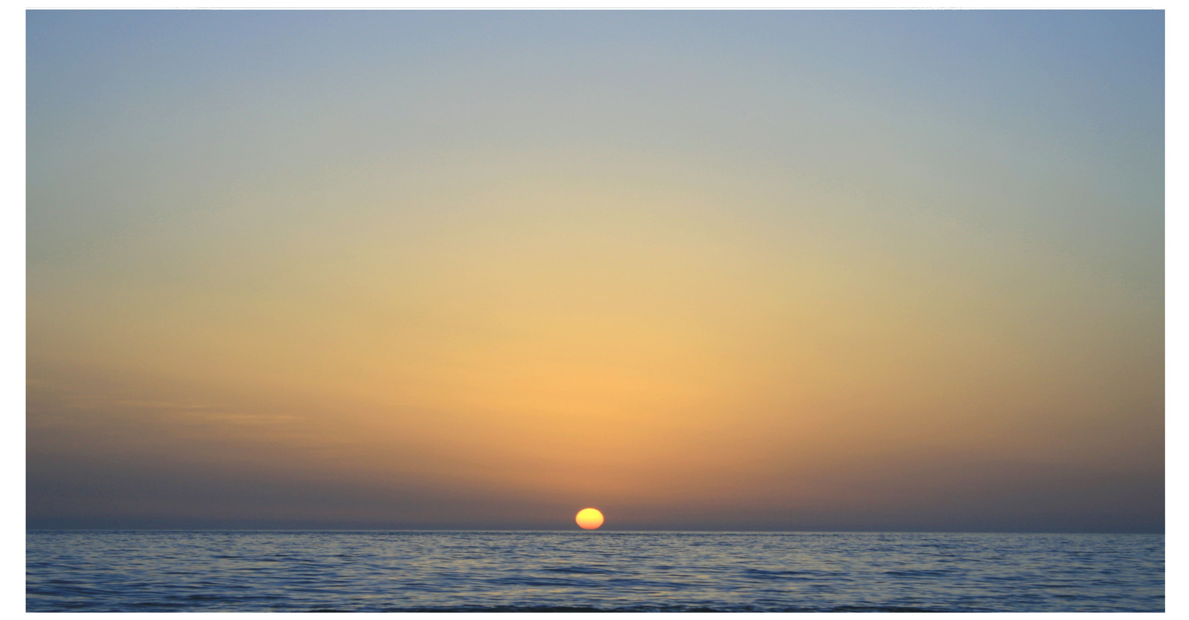 Cadiz twilight